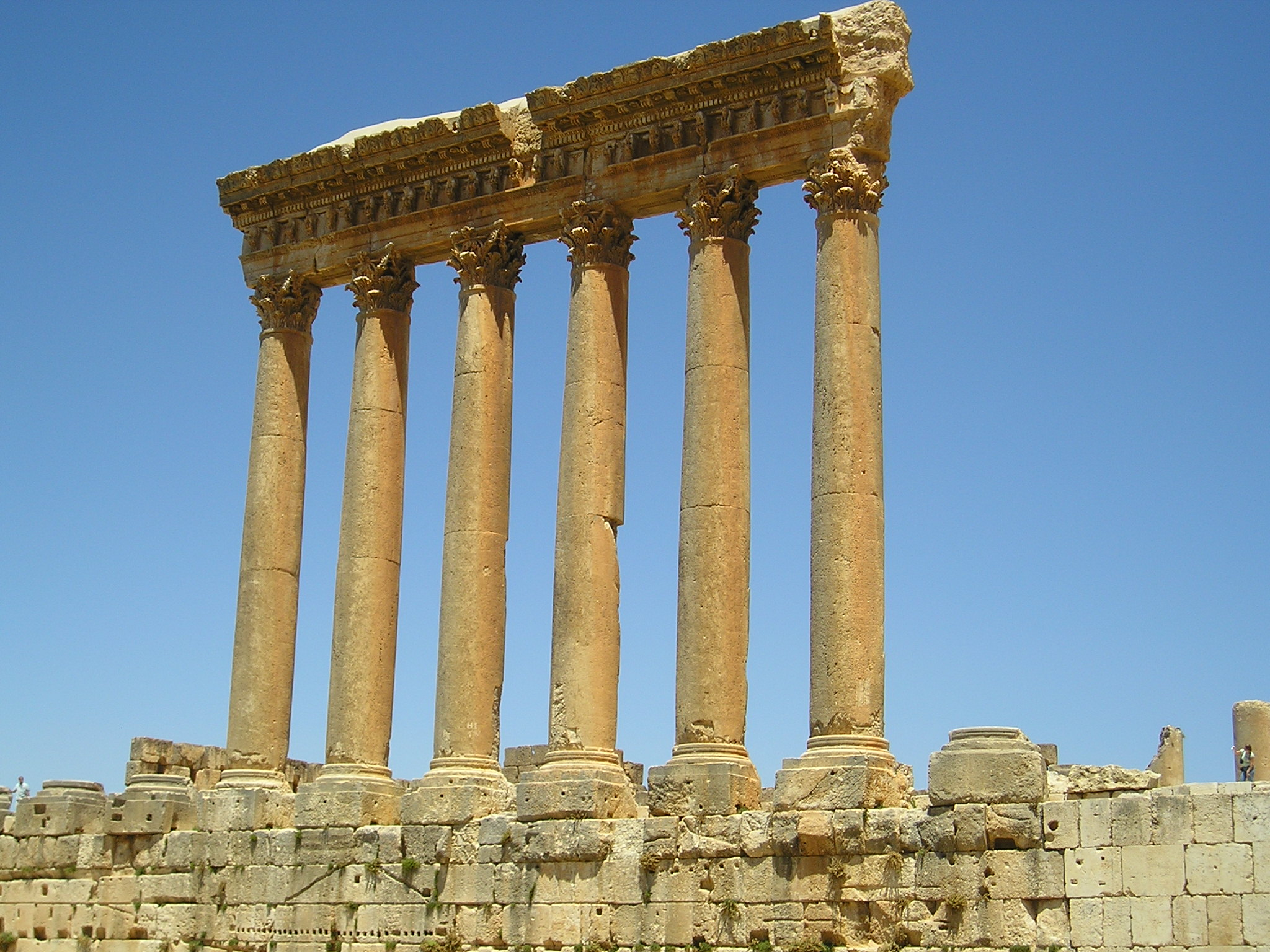 Baalbek, Lebanon - remaining six columns of the Temple of Jupiter - 22 meters high